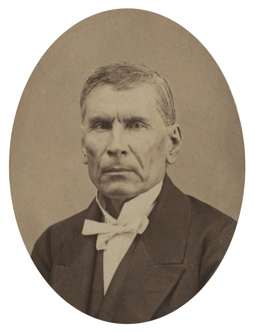 Santiago Vidaurri, former Governor of the Mexican state of Nuevo León y Coahuila, c.1867.